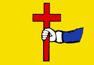 Royal Banner of the O'Donnell Clan who were Kings of Tyrconnell.